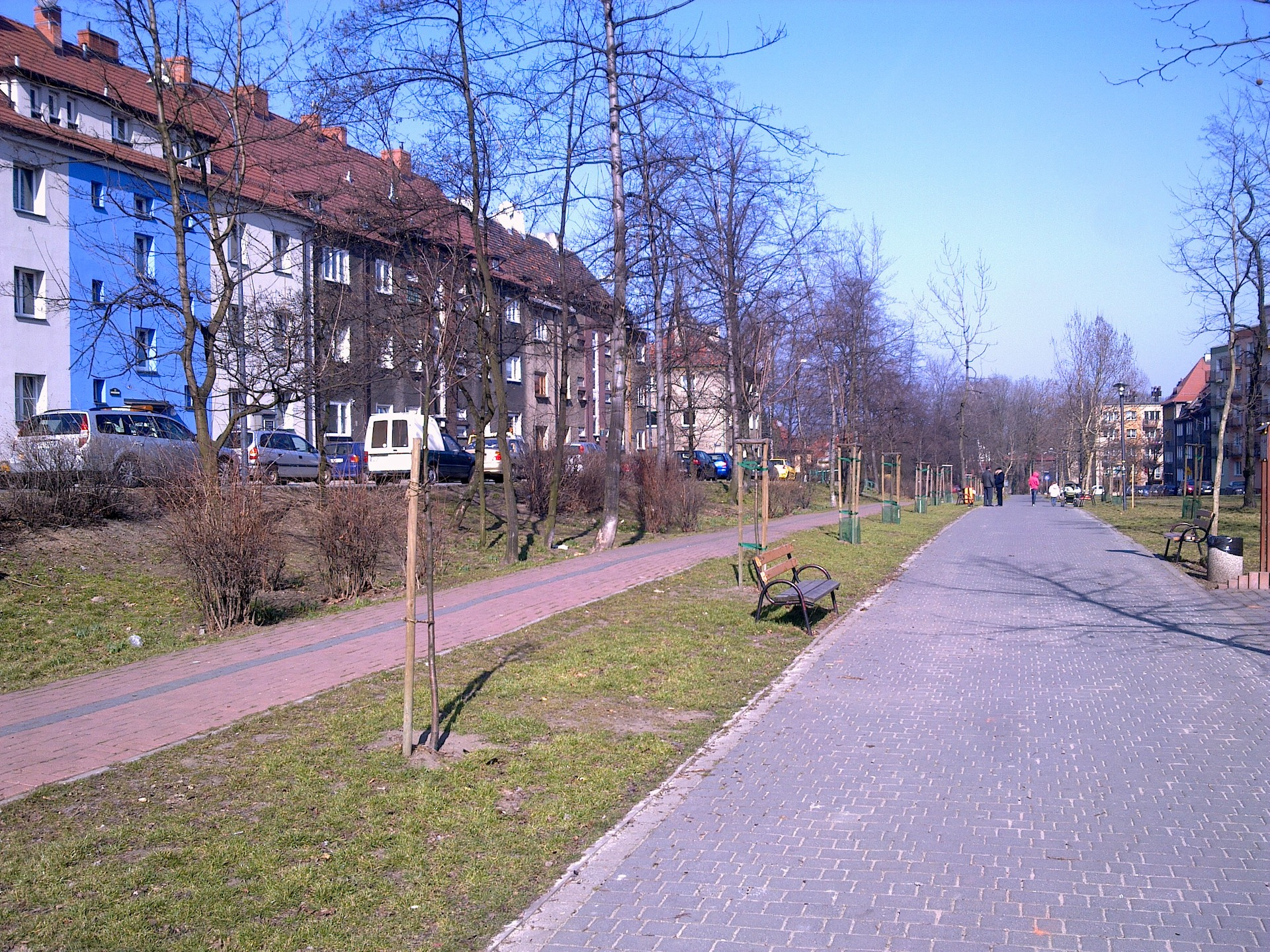 Bytom, Poland. Kraszewskiego street park with a bikeway.